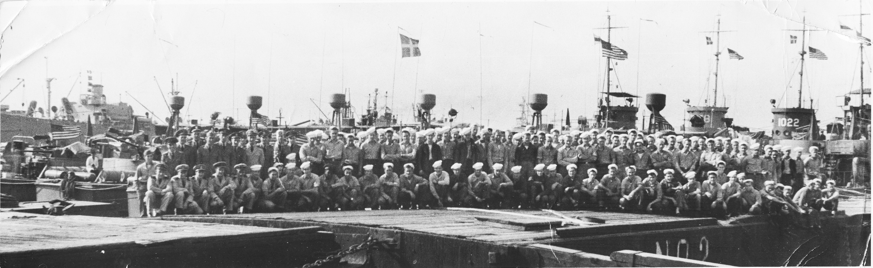 Officers and crew of PGM Division One, World War Two, Shanghai, China, October or November, 1945